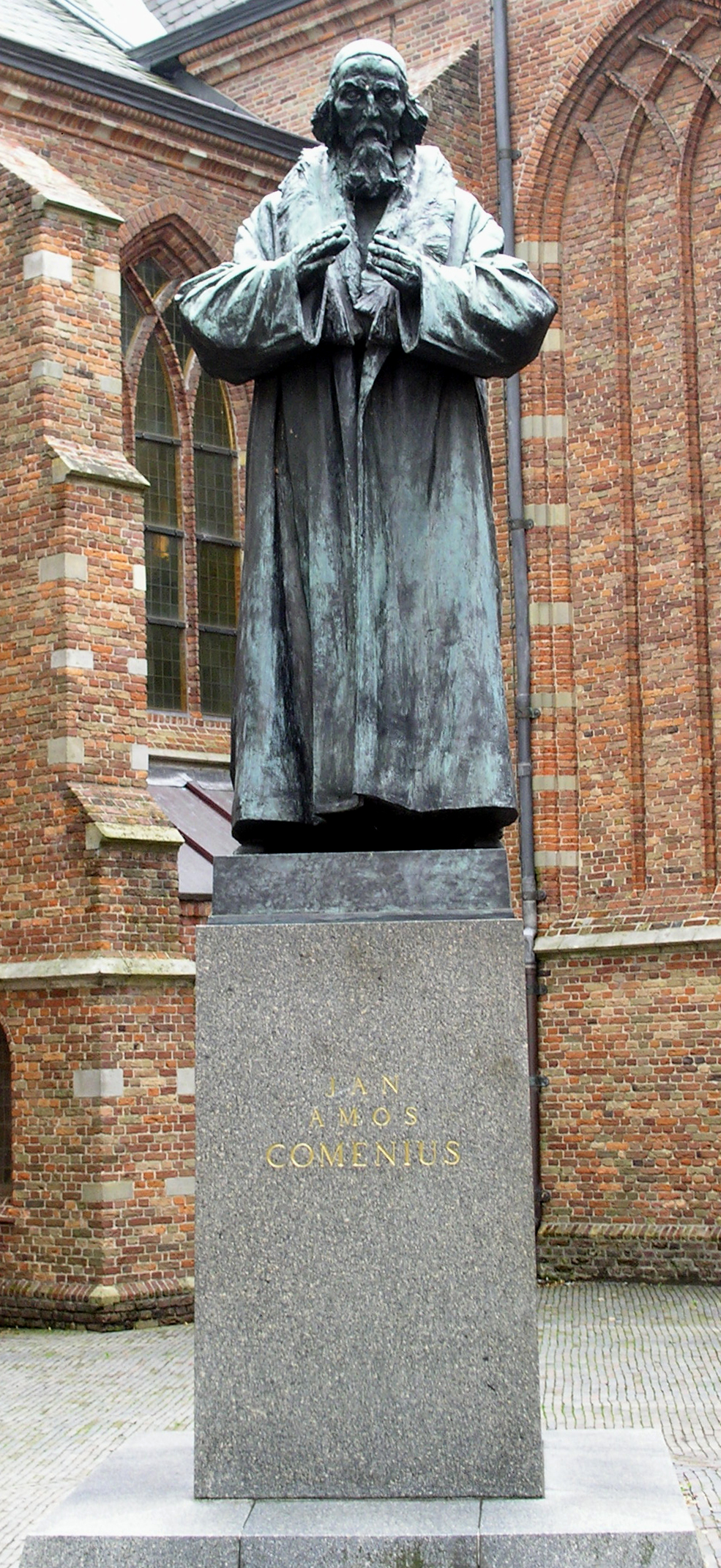 Comenius statue in Naarden (2001). According to [1], it's one of two bronze copies of a stone statue in the Czech republic that was made by Vincenc Makovský.